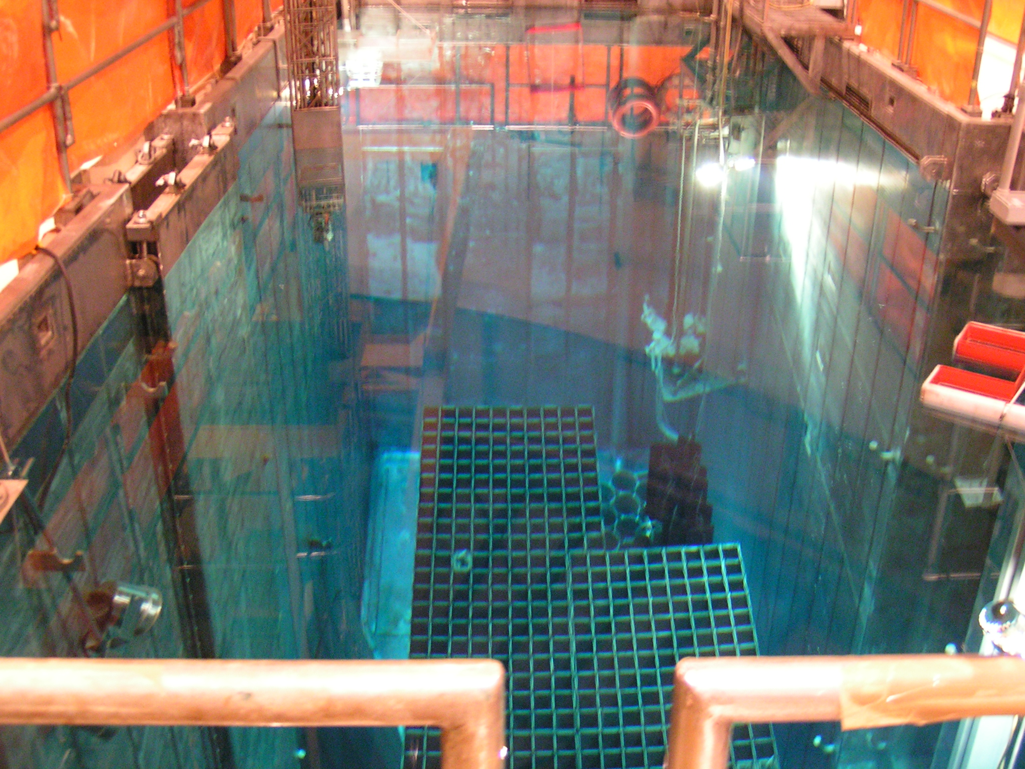 Centrale nucleare di Caorso - Piscina Pila Nucleare. See where this picture was taken [?]